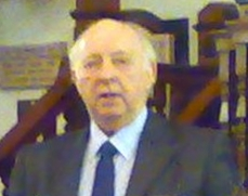 Arthur Scargill speaks at a Socialist Labour Party public meeting in Pontypridd